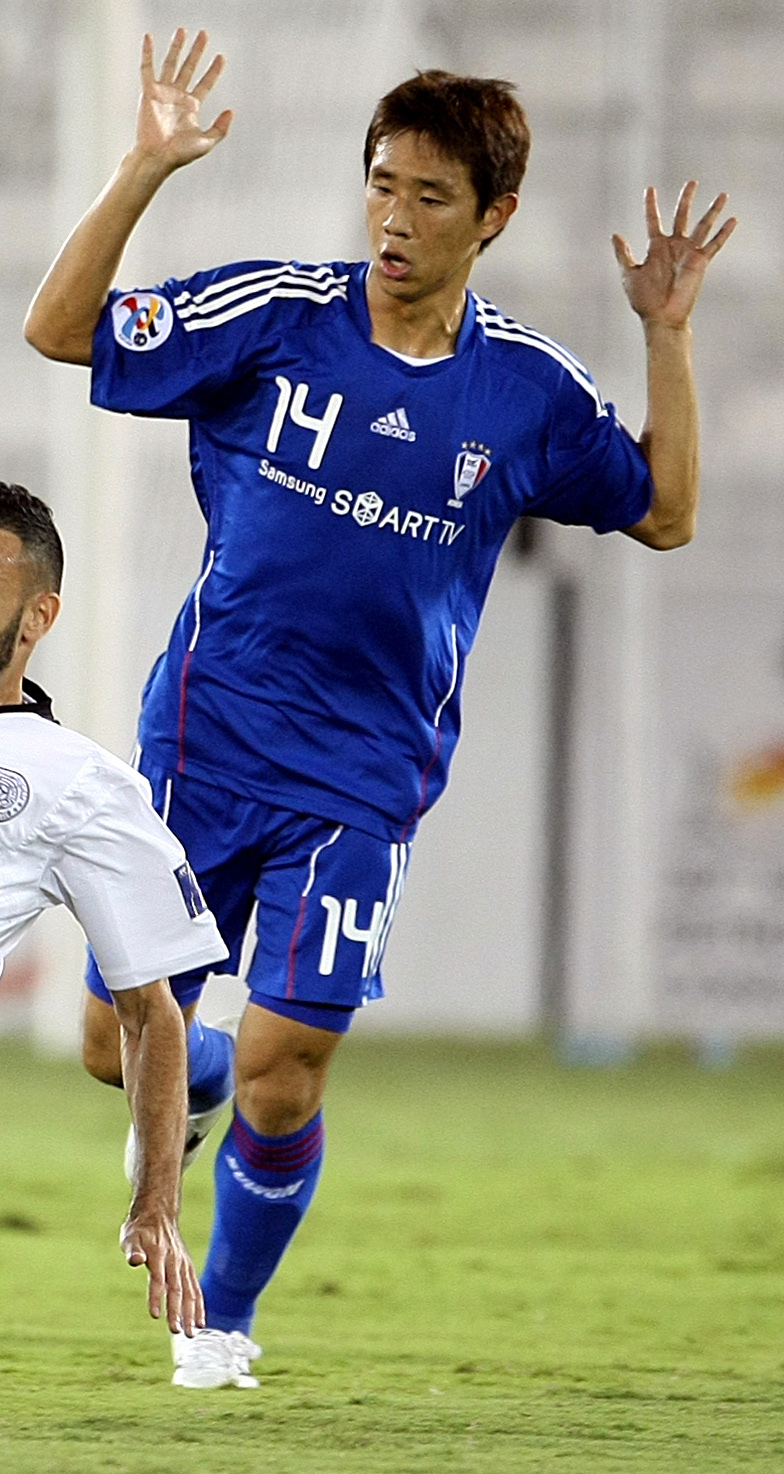 Al Sadd's Algerian professional Nadir Belhadj in action against Suwon Bluewings during the 2011 AFC Champions League.